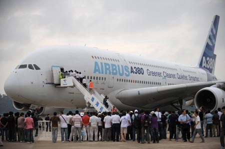 Plane being boarded at Zhuhai Airport Zhuhai, Guangdong Province, China 2006 Source: me.